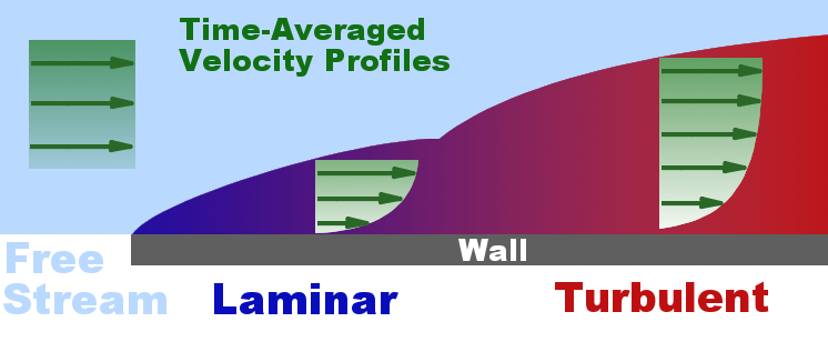 This image shows a boundary layer schematic. Shown are the free stream, laminar and turbulent time-averaged velocity profiles (in green) of a boundary layer. The fade between the two colors representing the fully developed laminar (dark blue) and fully developed turbulent (red) regions, highlights the transition region. The hump at the transition point highlights the difference in thickness of a laminar boundary layer compared to a turbulent boundary layer. The vertical scale is greatly exaggerated.